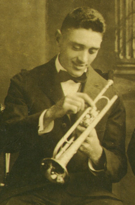 Photograph of the musician Frank Christian